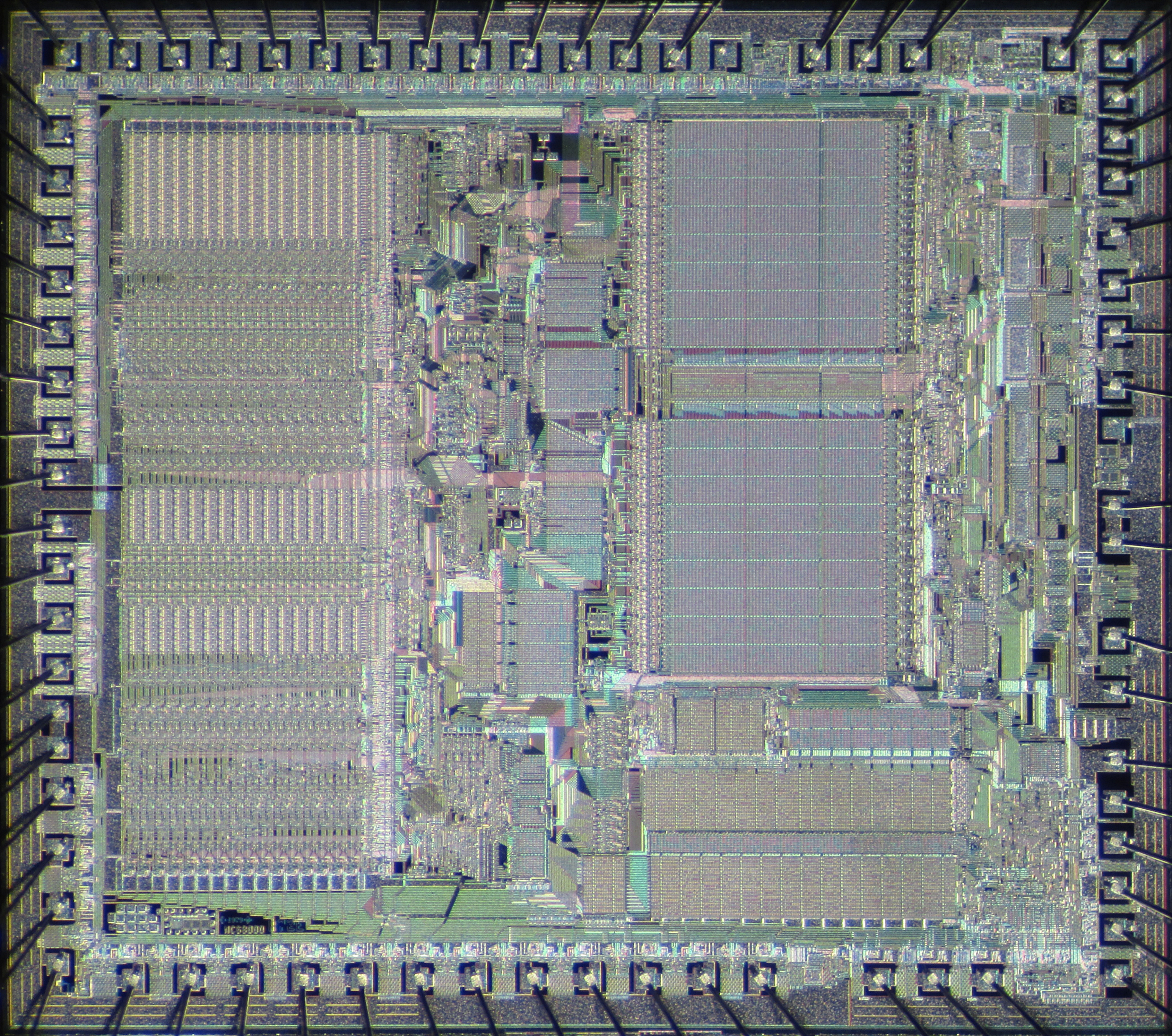 Die shot of Motorola 68000 microprocessor (MC68000L12, 2A72E mask).